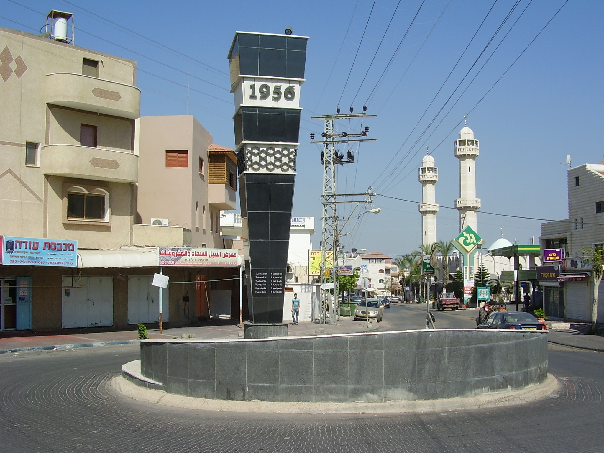 monument in kafr quasim to the victims of the massacre in 1956 אנדרטה להרוגי טבח כפר קאסם